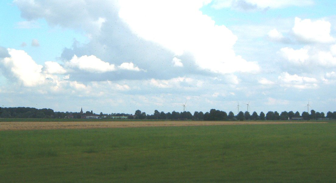 Skyline of Eethen, the Netherlands